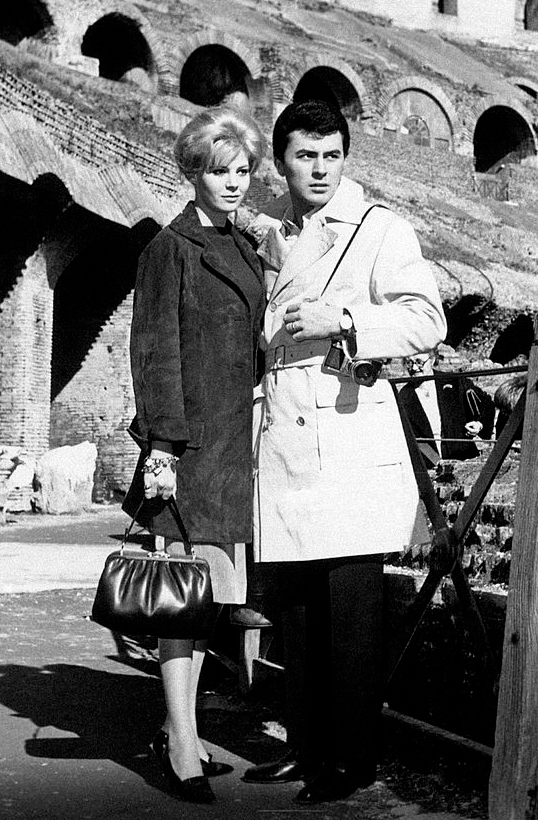 American actor and singer James Darren (James Ercolani) posing at Colosseum with his wife, Danish beauty queen Evy Norlund. They chose Italian capital as destination for their honeymoon. Rome, 1960